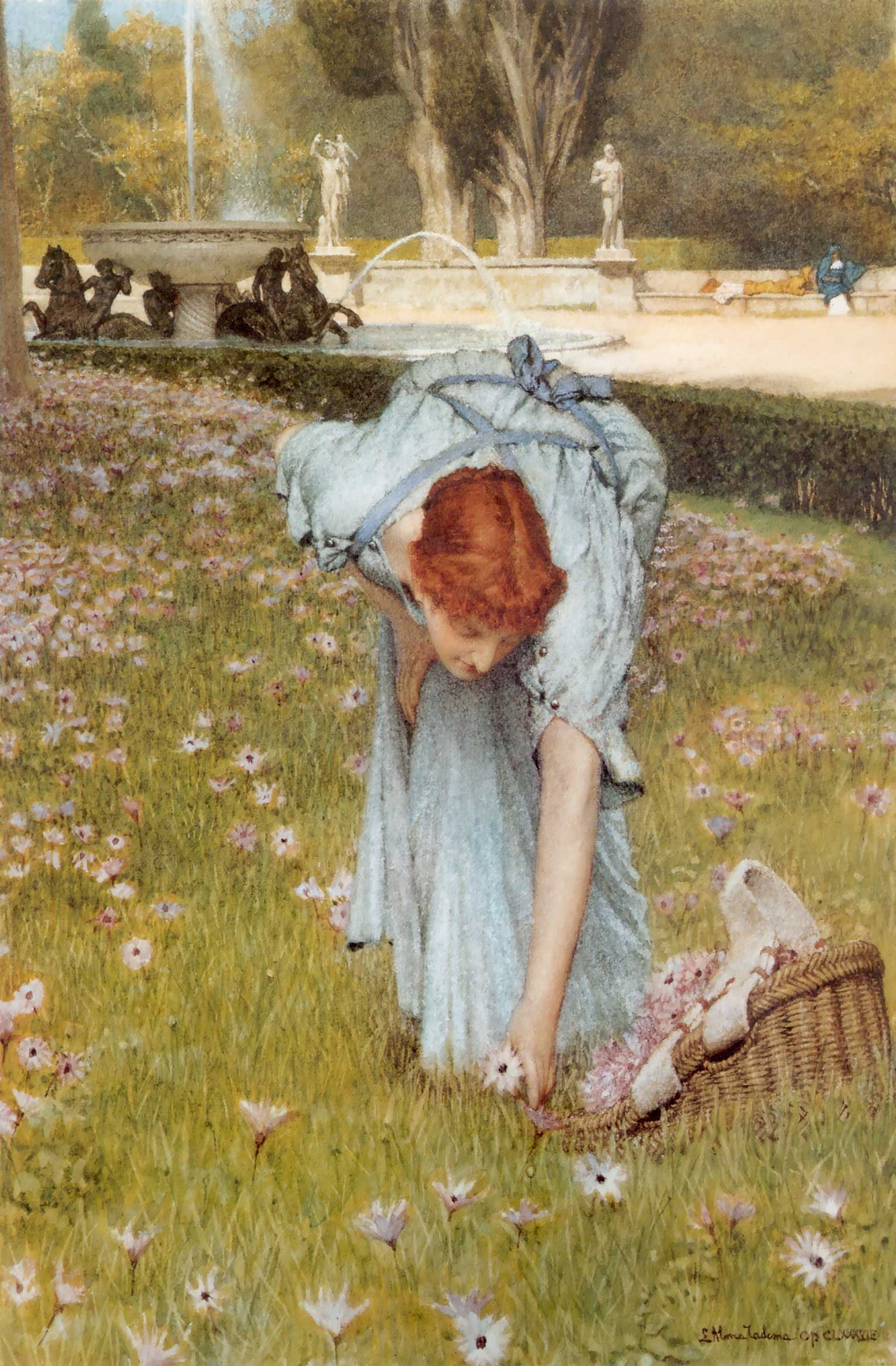 Lawrence Alma-Tadema's art